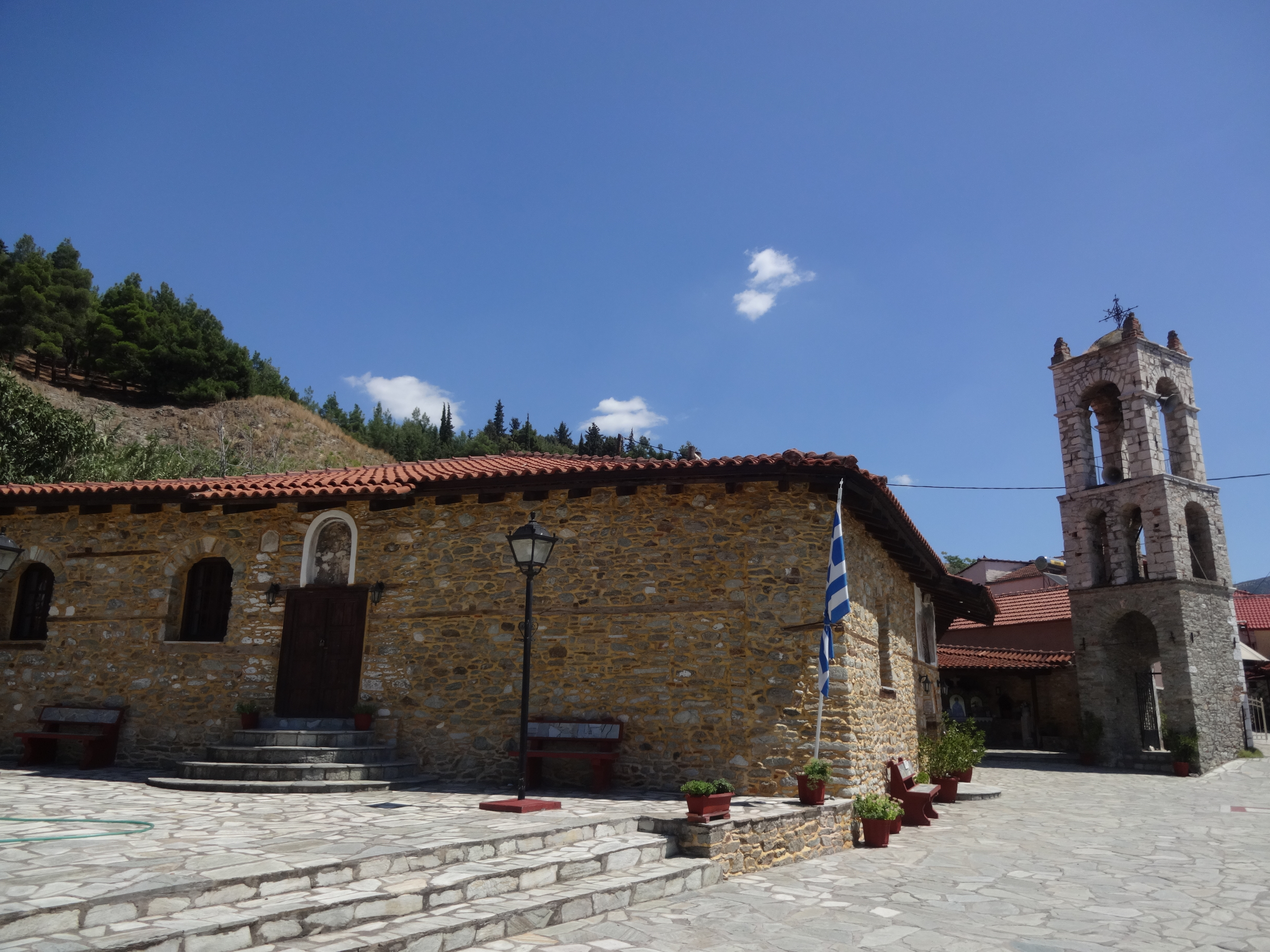 Tsaritsani, Greece. Church of St. Nicolas.